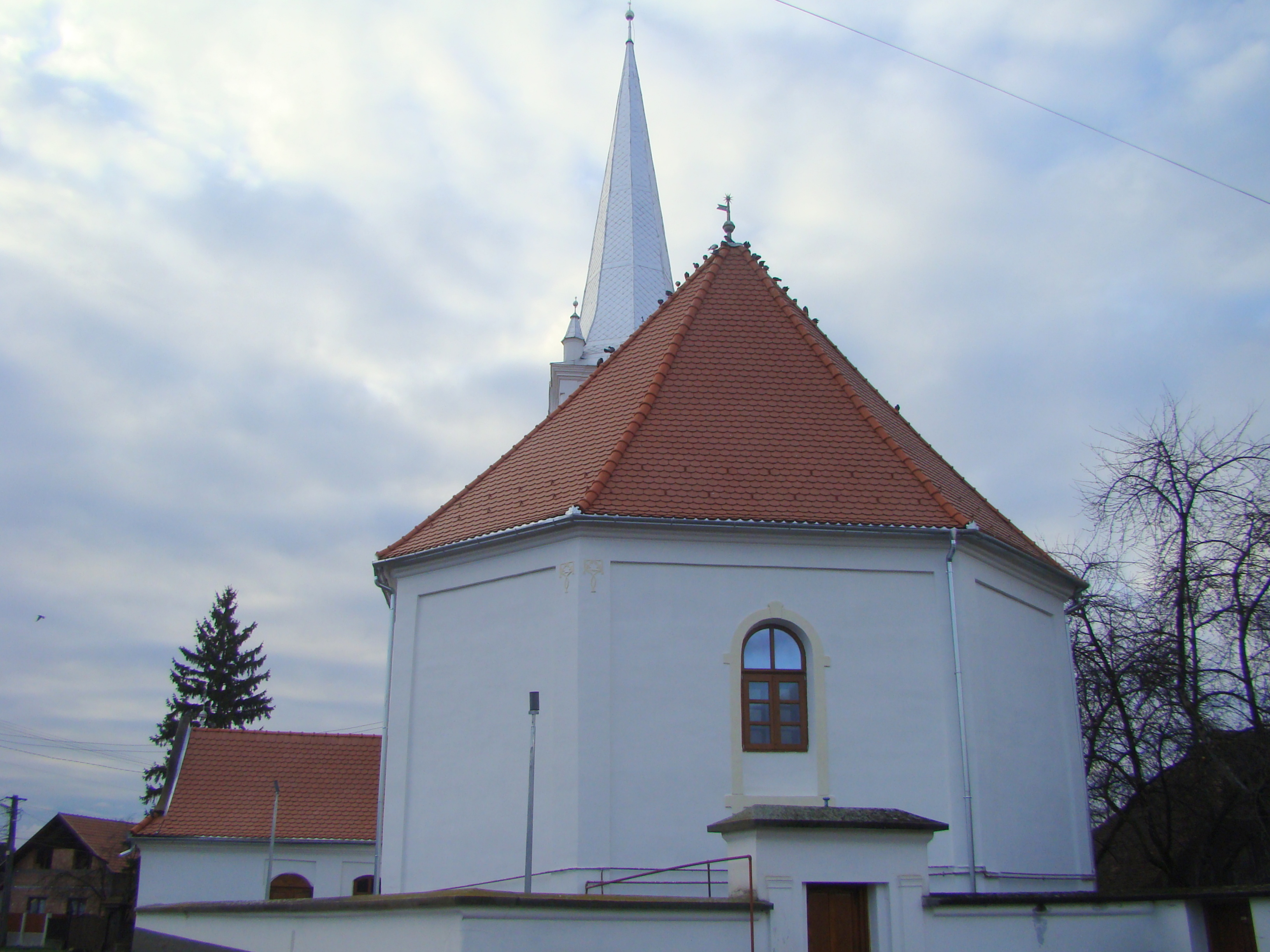 Reformed church in Chibed, Mureș County, Romania